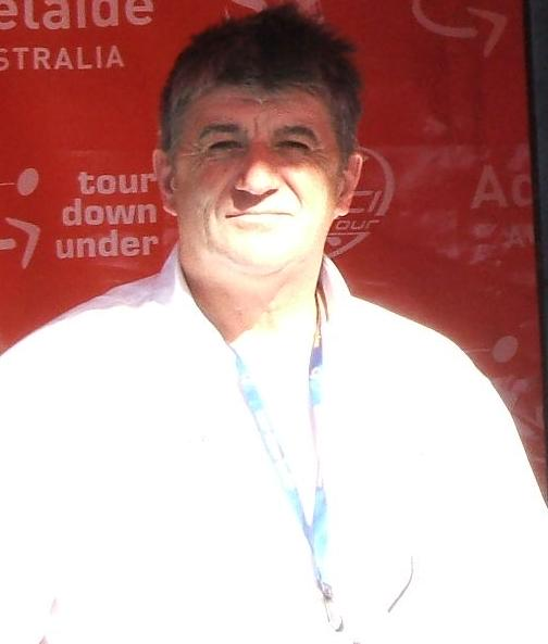 Named cyclist at the en:2009 Tour Down Under team presentation